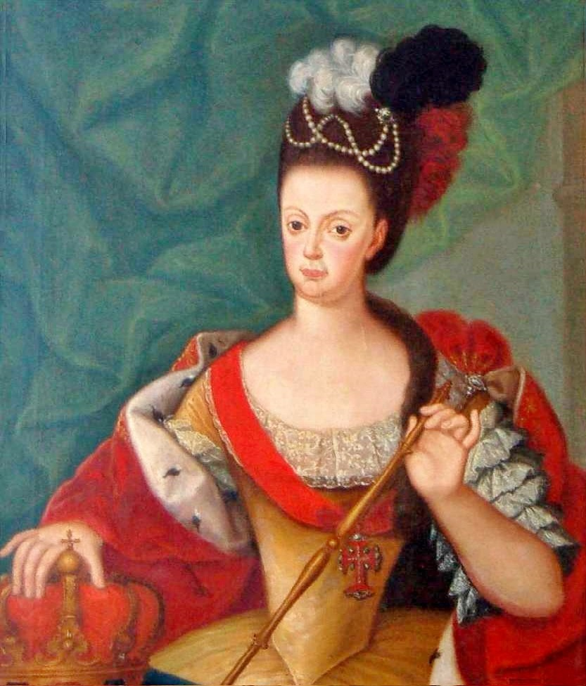 Portrait of Dona Maria I